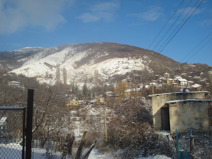 zimata